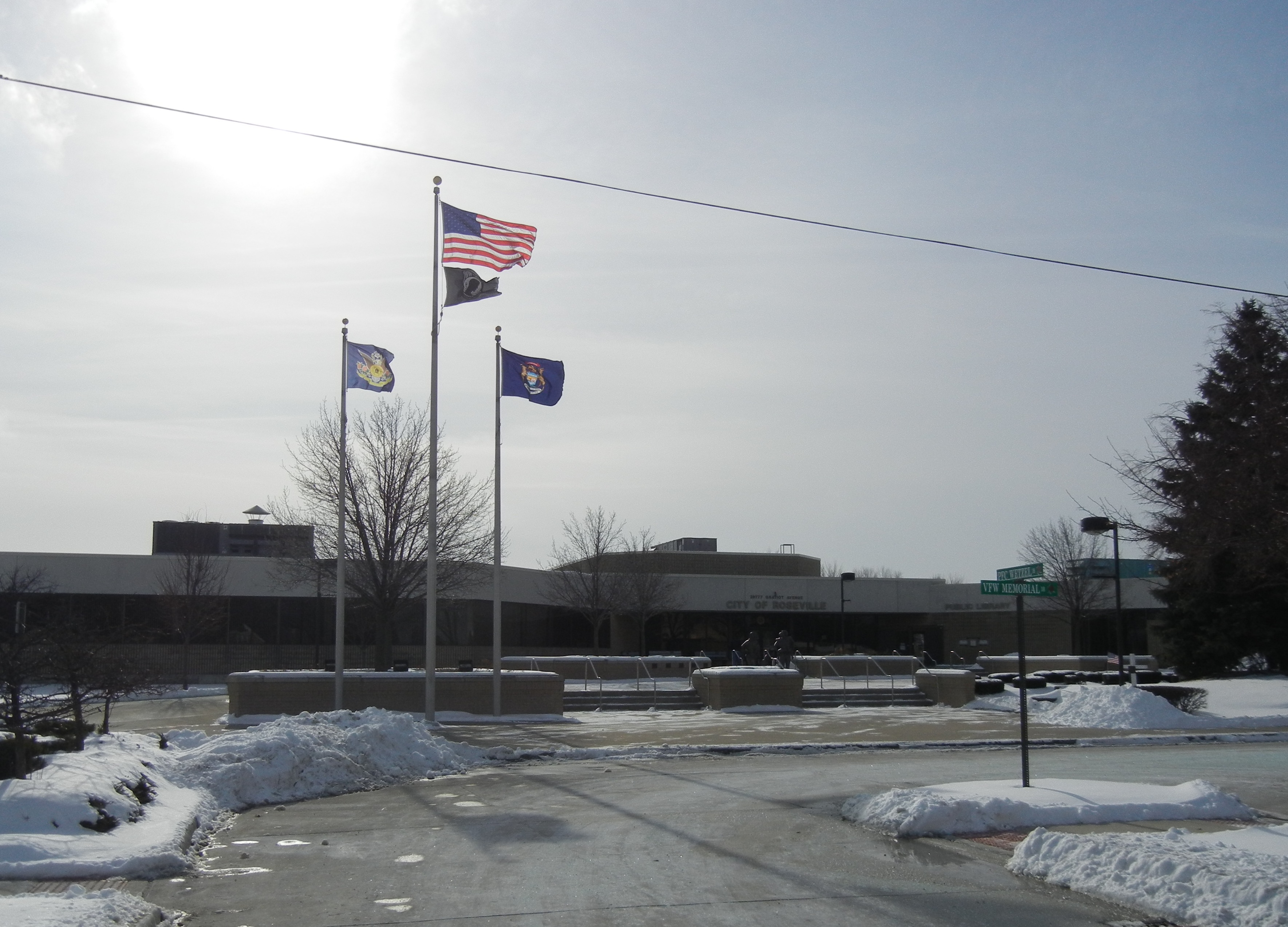 Roseville, Michigan Civic Center